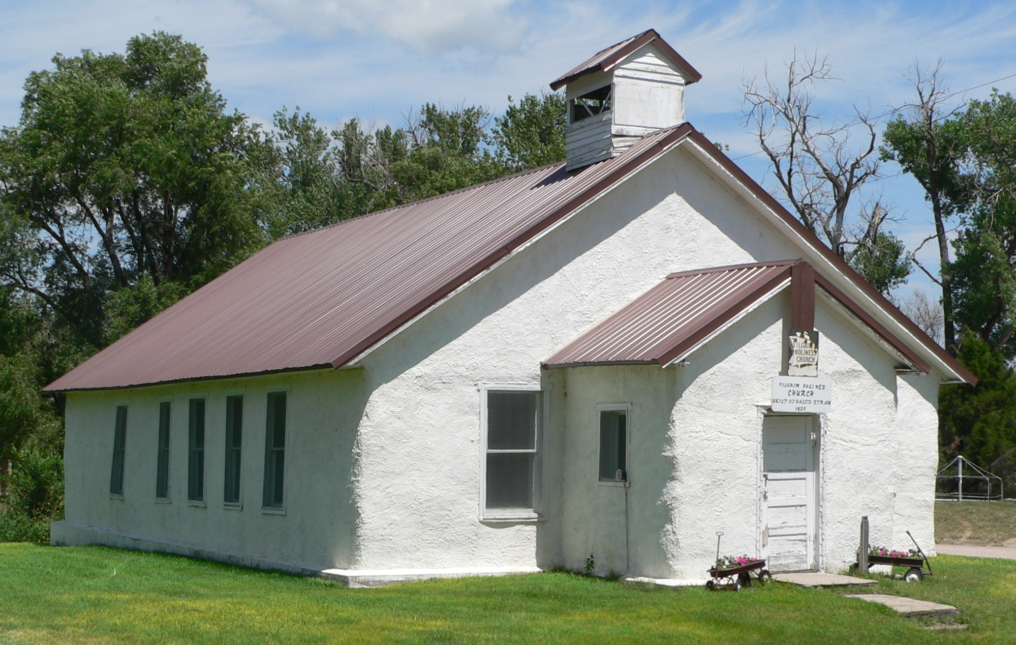 Pilgrim Holiness Church in Arthur, Nebraska; seen from the northwest. The church was built out of baled straw in 1928. It is listed in the National Register of Historic Places.